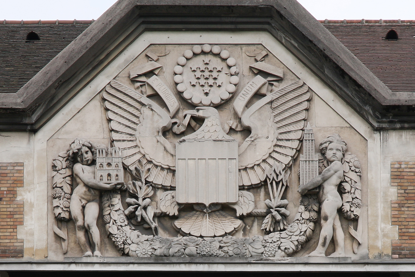 Fondation des États-Unis in Paris, relief above the main entrance